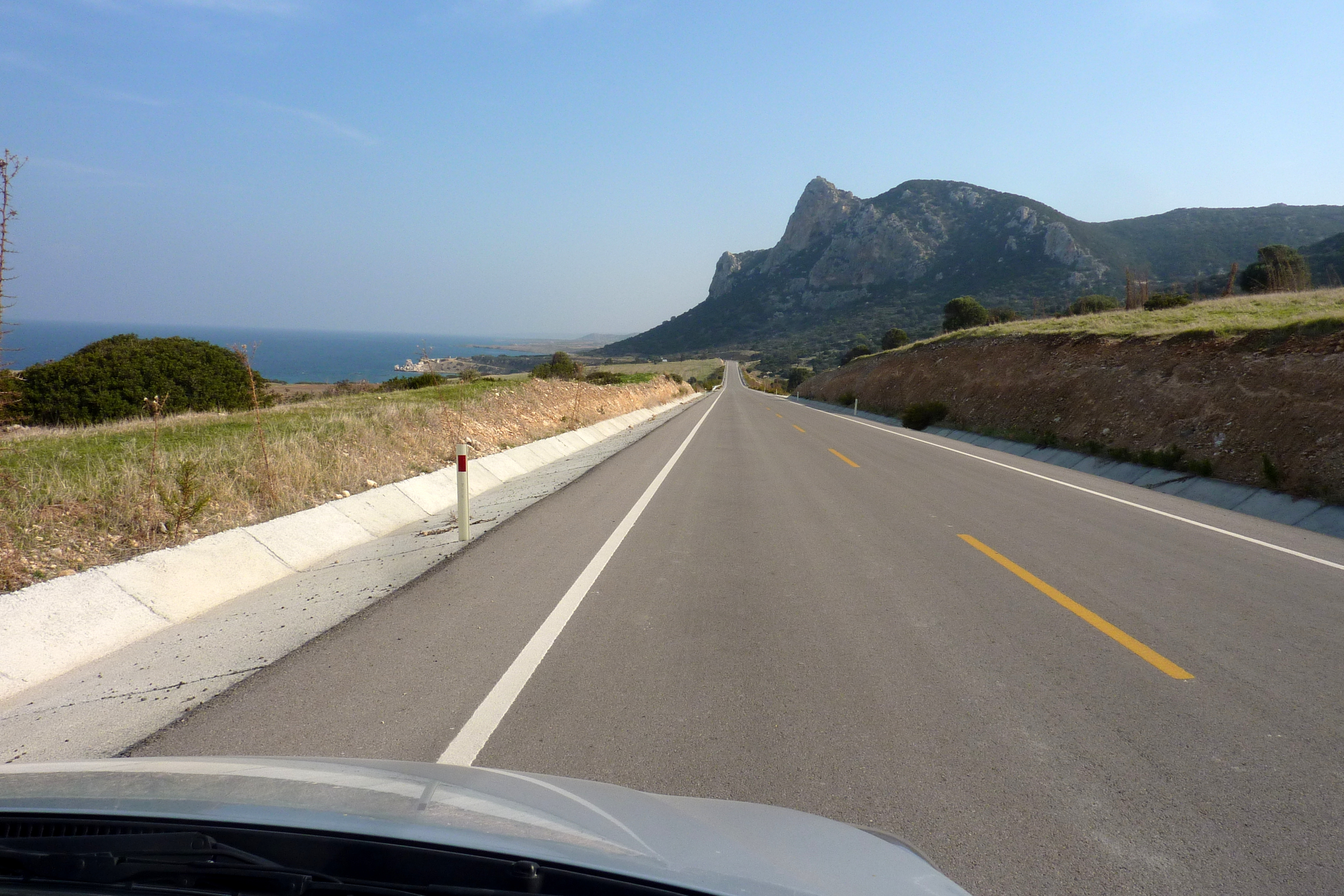 The recently constructed Northern Coastal Highway in Karpaz